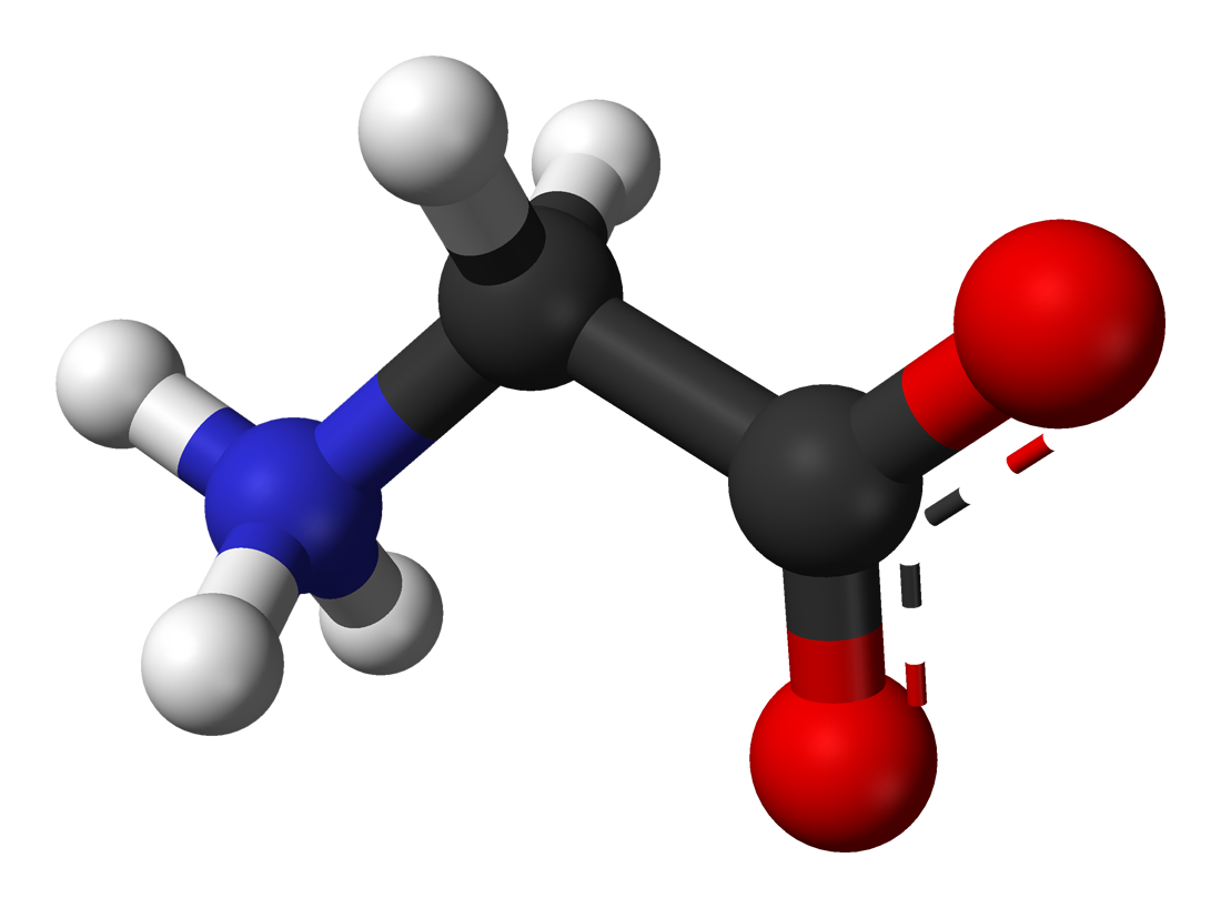 Ball-and-stick model of the glycine zwitterion, C2H5NO2, as found in the crystal structure of α-glycine. X-ray crystallographic data from CrystEngComm (2008) 10, 335-343. Model constructed in CrystalMaker 8.1. Image generated in Accelrys DS Visualizer.